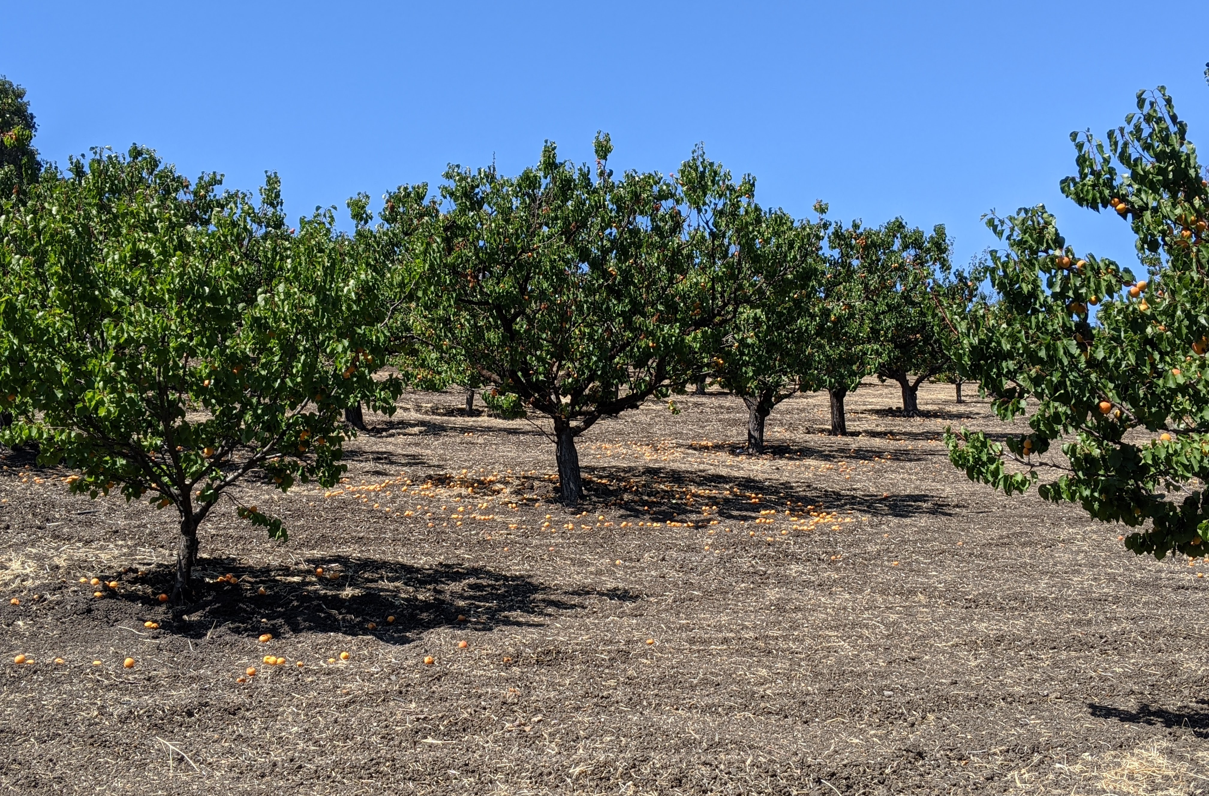 David Packard's apricot orchard in Los Altos Hills, preserved by the David and Lucille Packard Foundation. Many ripe apricots have fallen to the ground. Viewed from the Packard Pathway along Purisima Creek.